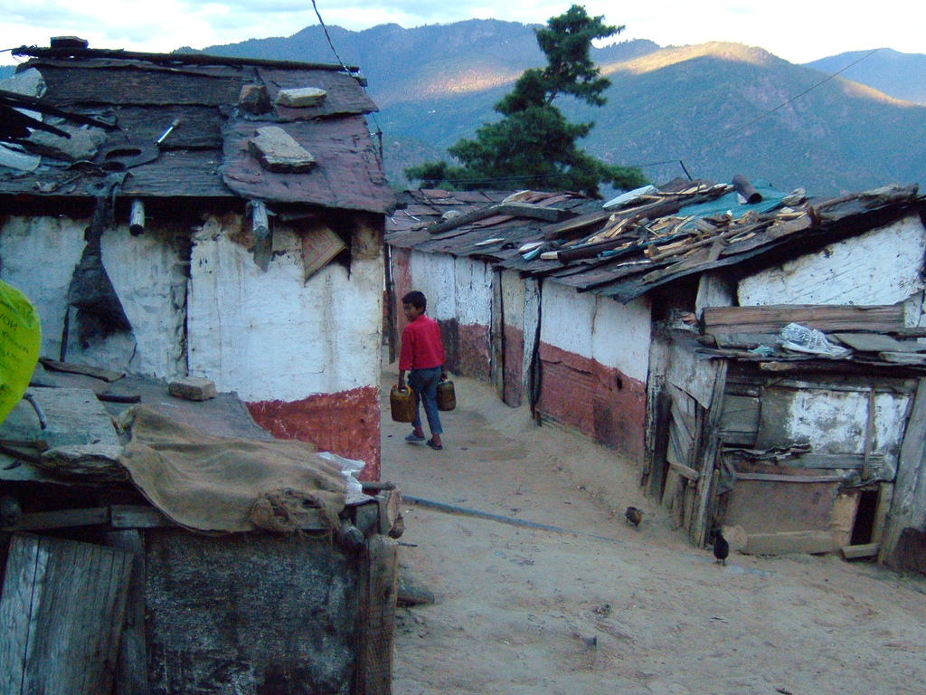 Slum inhabited by Nepalis. Paro, Bhutan.